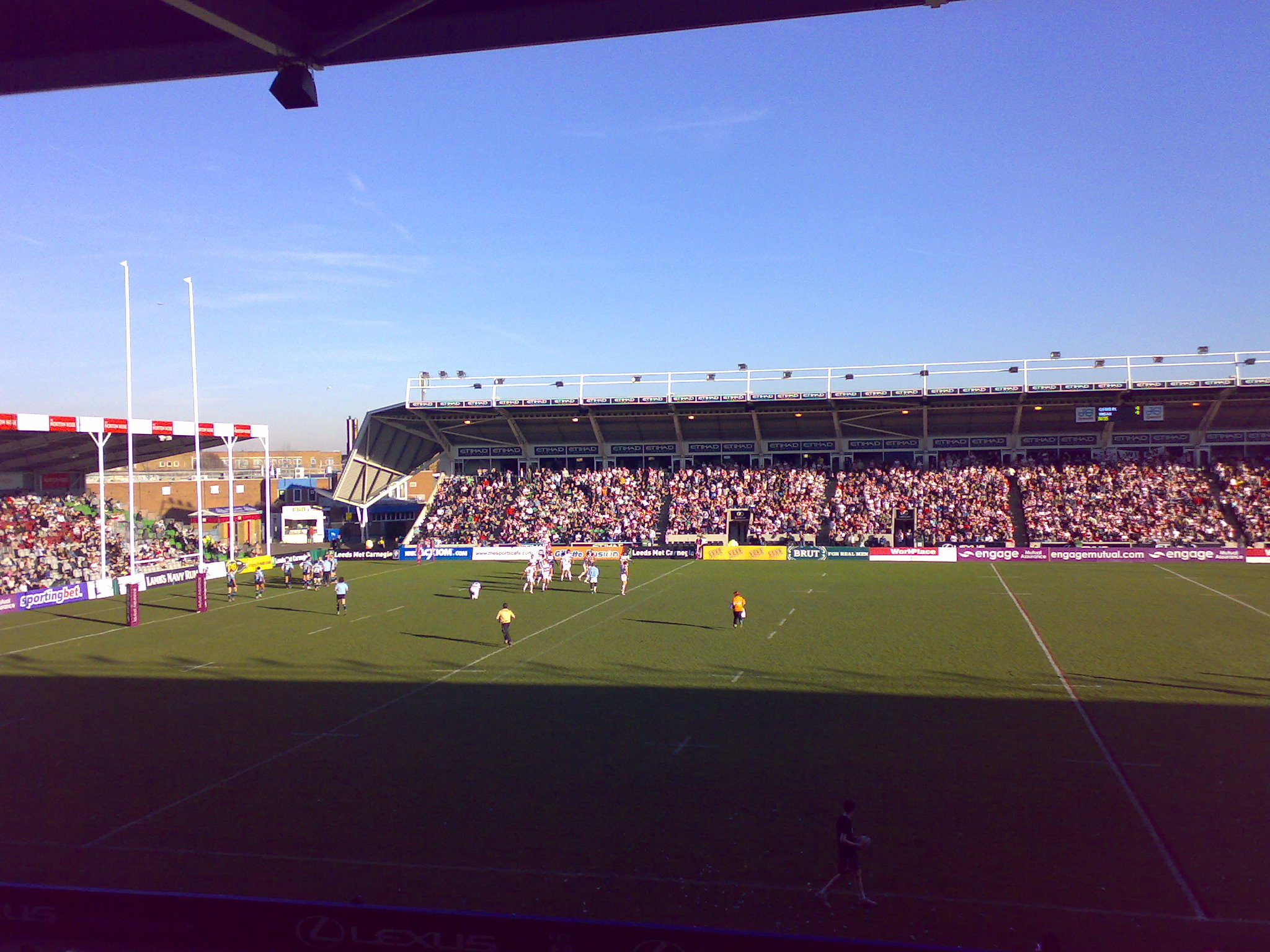 Stoop